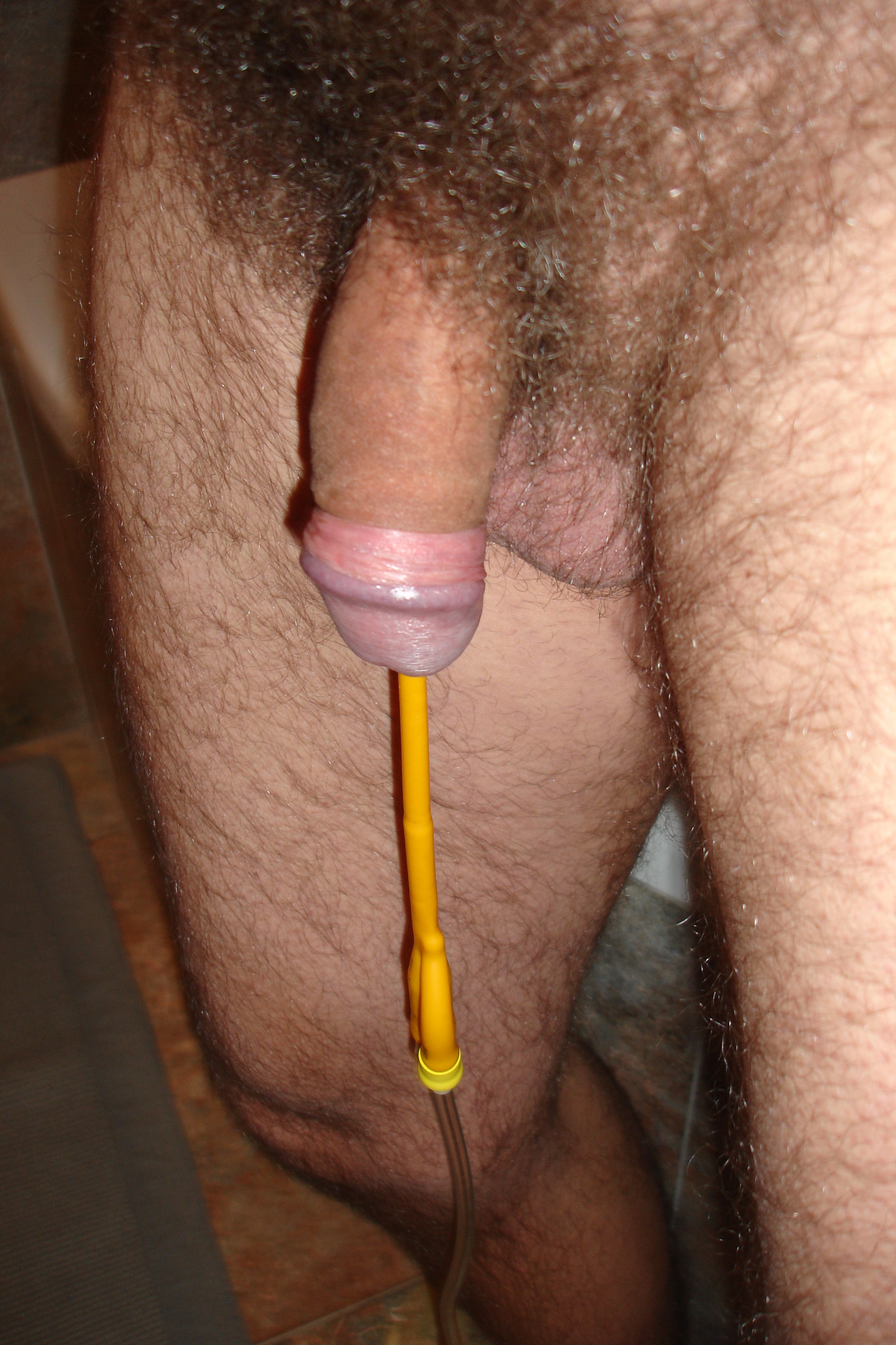 Foley catheter CH 20